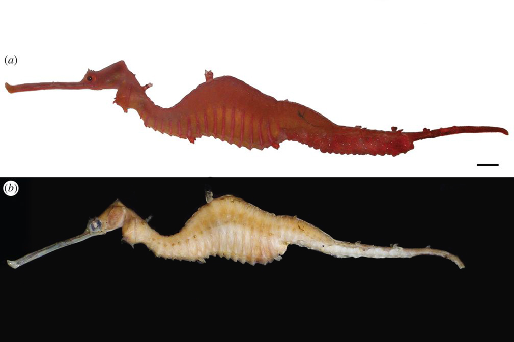 Holotype (male) of the Ruby Seadragon, Phyllopteryx dewysea: (a) on-deck shortly after being trawled; (b) preserved, with tip of tail and eggs removed. Source: Glenn Moore & Sue Morrison / Western Australian Museum in Stiller, Wilson & Rouse 2015 A spectacular new species of seadragon (Syngnathidae). R. Soc. open sci. 2: 140458.